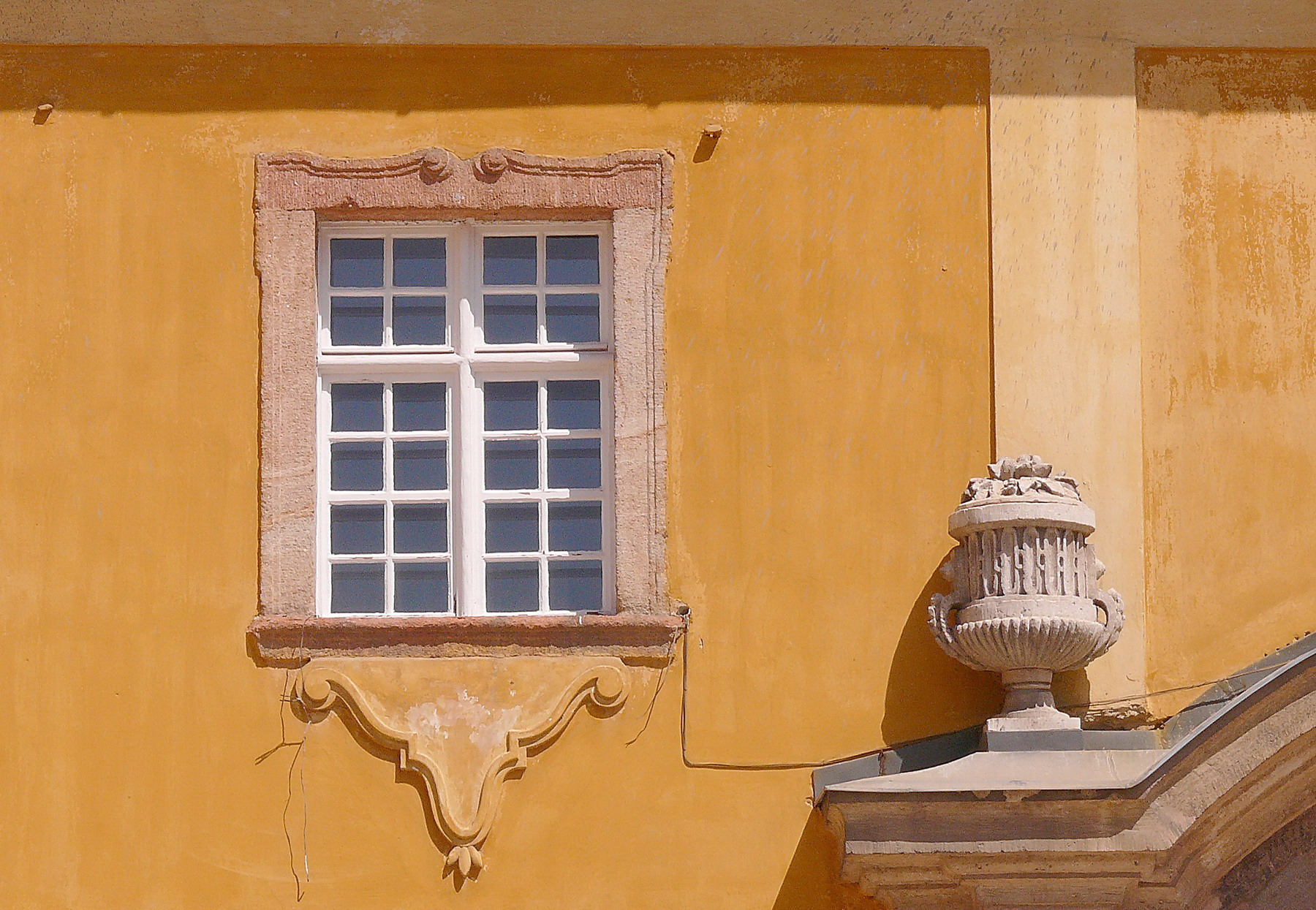 Courtyard facade of Kiscell Castle